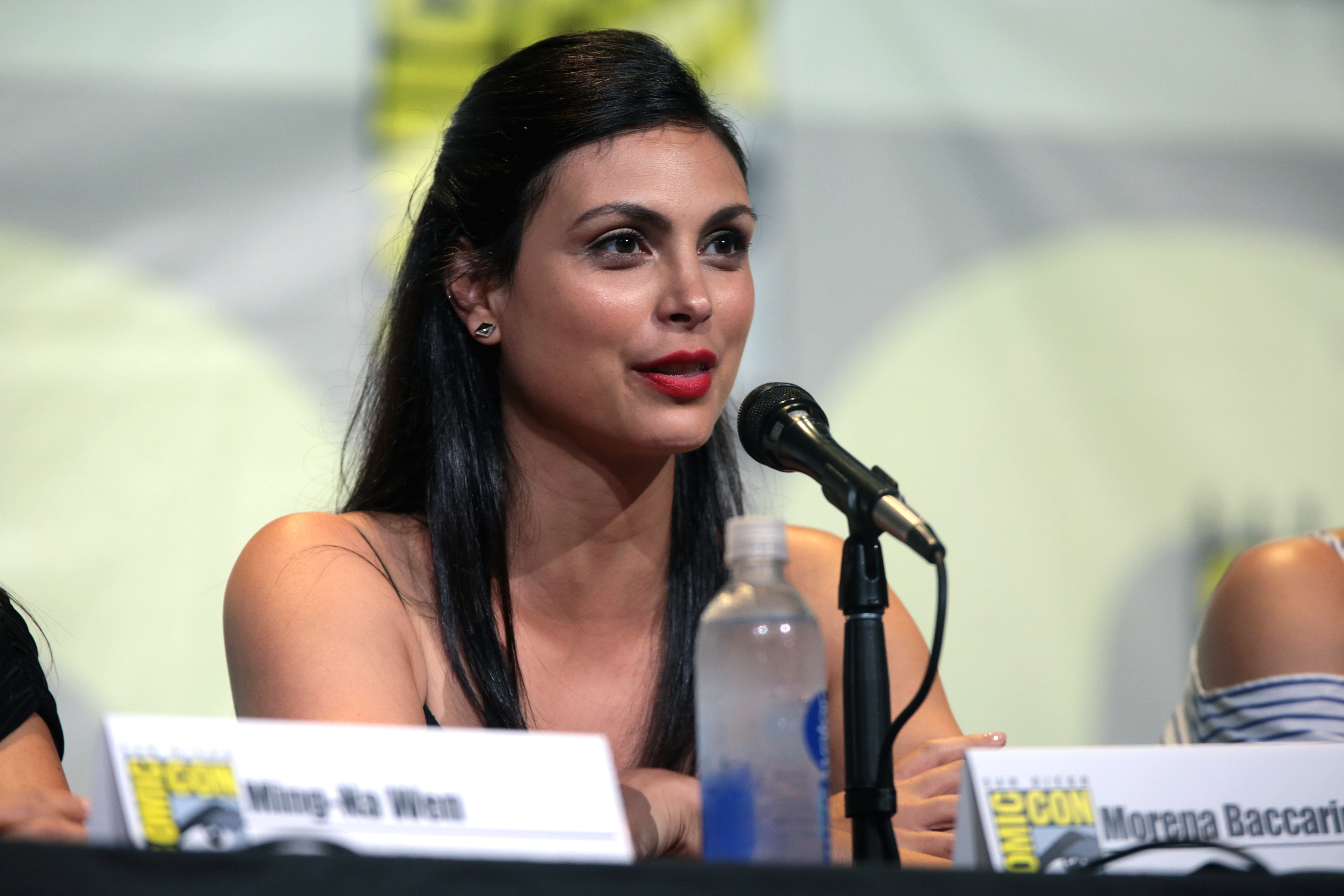 Morena Baccarin speaking at the 2016 San Diego Comic Con International, for "Entertainment Weekly: Women Who Kick Ass", at the San Diego Convention Center in San Diego, California.